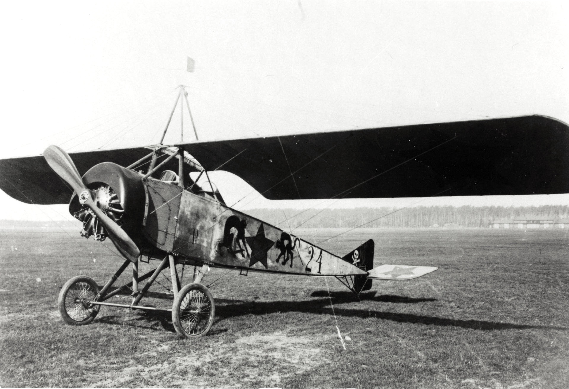 Morane-Saulnier L in Soviet markings